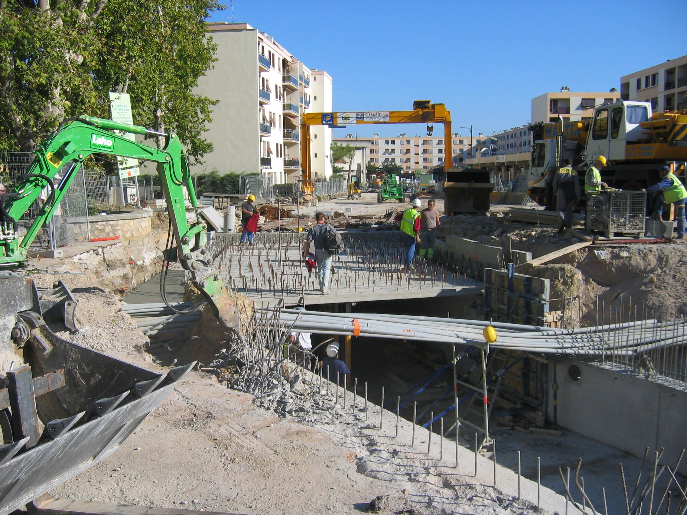 Works of recalibration of the Lantissargues in Montpellier in order to prepare for the tram (streetcar). Faces have been pixellized.